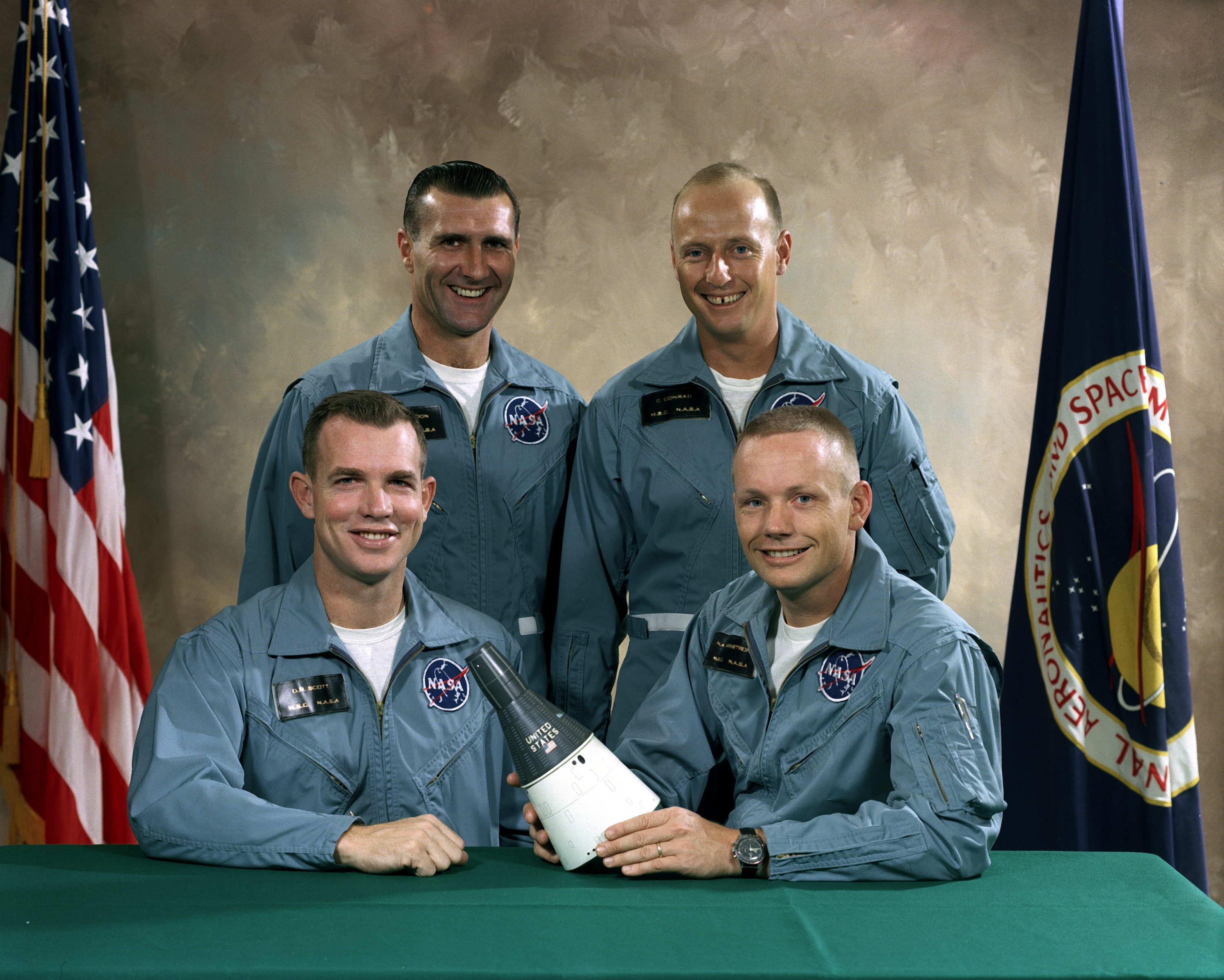 Portrait of the Gemini 8 prime and backup crews. Astronauts David R. Scott (left), pilot, and Astronaut Neil A. Armstrong, command pilot, are the prime crew of the Gemini 8 mission. Backup crew (left to right, standing), are astronauts Richard F. Gordon Jr., pilot, and Charles Conrad Jr., command pilot. 4 November 1965.